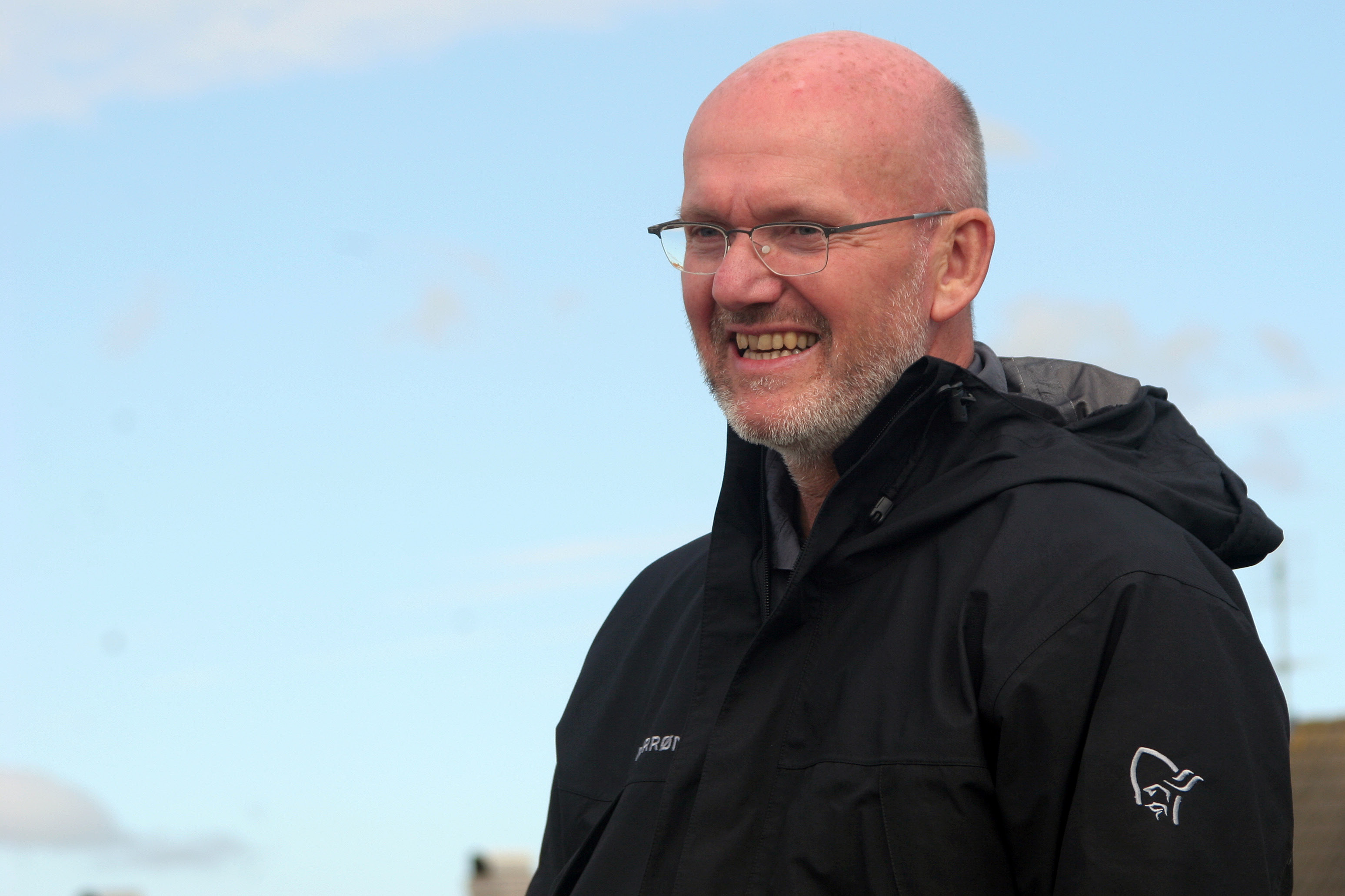 Hans Johansson, Swedish theologian and author.